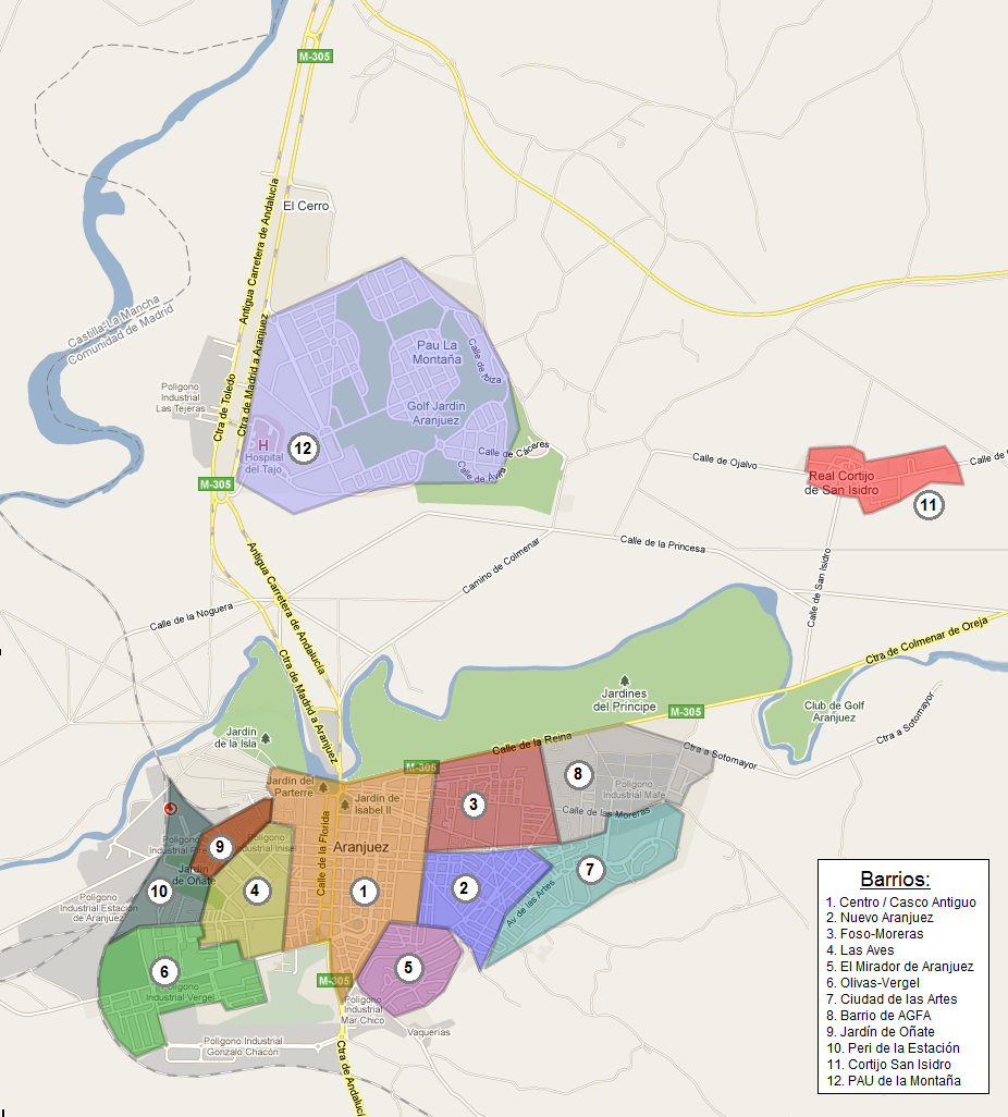 Aranjuez Town Districts